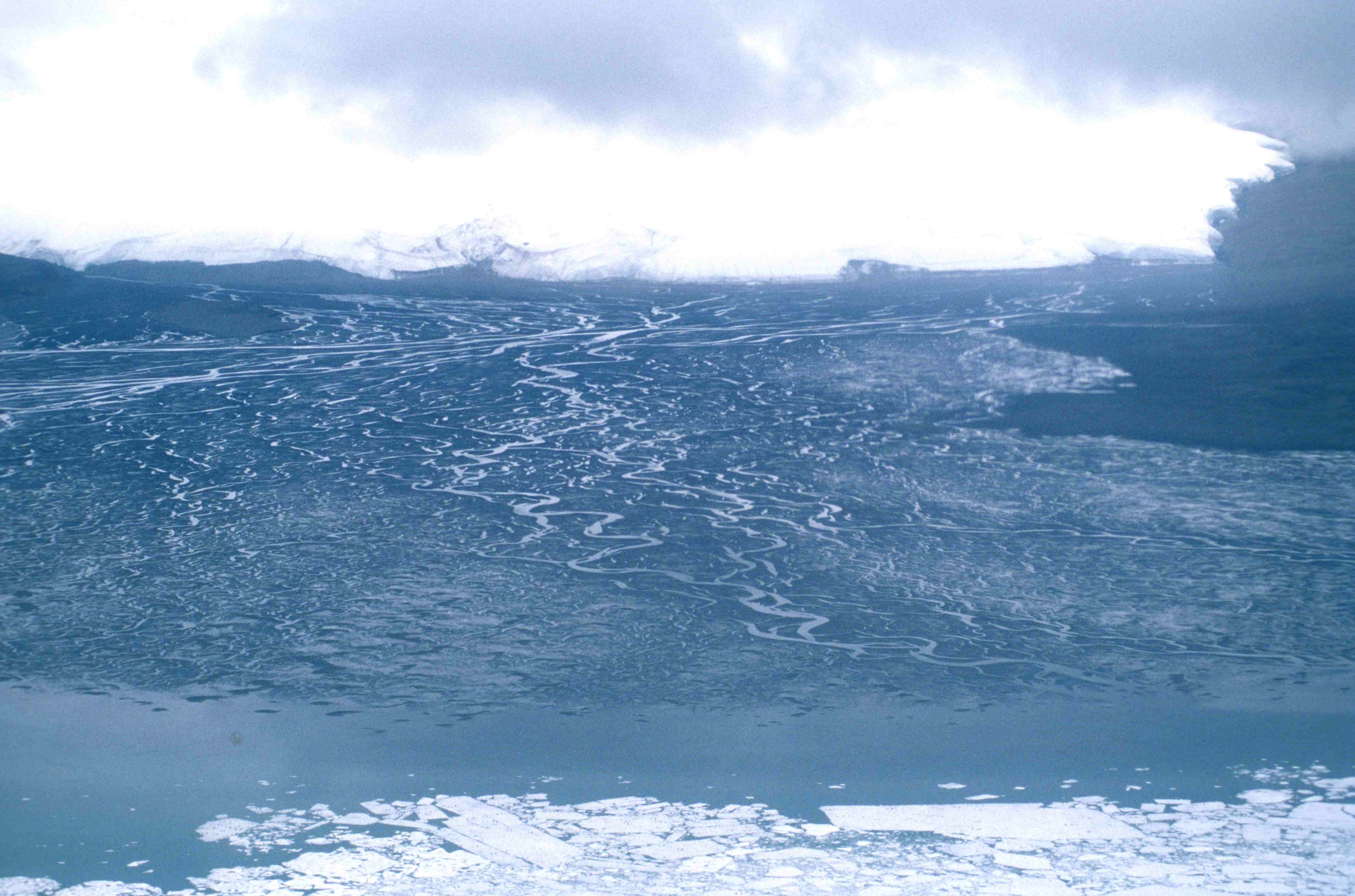 North-western coast of Lake Hazen: Henrietta River Delta below Henrietta Nesmith Glacier, Quttinirpaaq National Park, Nunavut, Canada